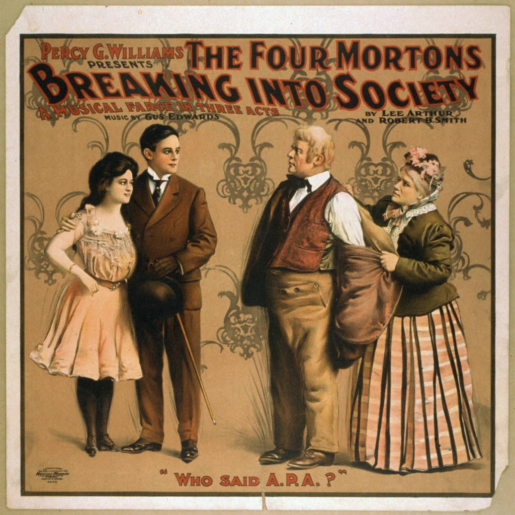 Poster for Breaking into Society (1905), presented by Percy G. Williams and starring the Four Mortons. Cincinnati ; New York : U.S. Lithograph Co., c1905.